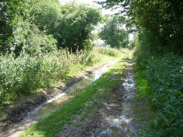 A section of the long distance footpath Boudica's Way, south east of the town of Long Stratton, Norfolk, England.